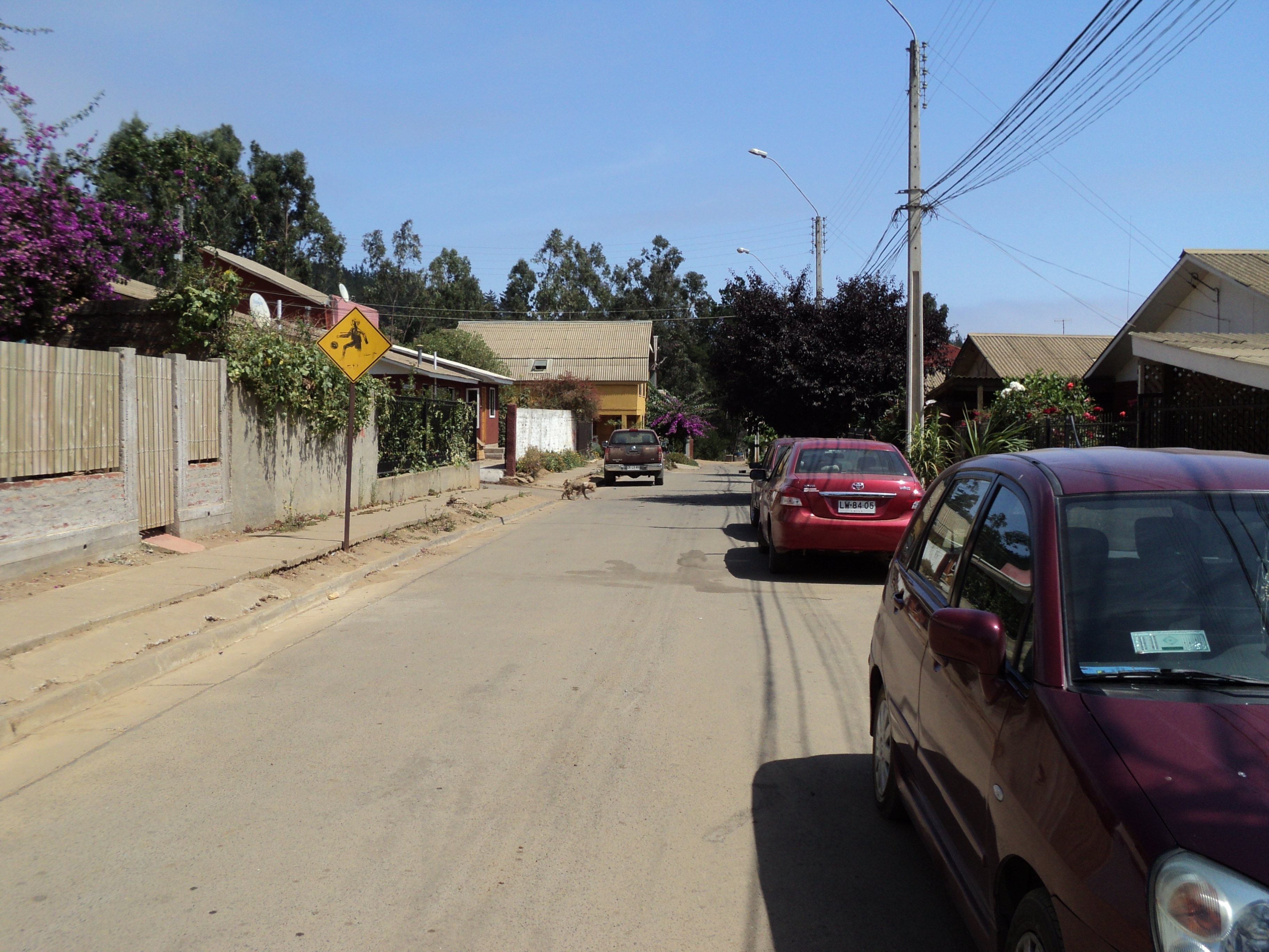 Los Navegantes, in Pichilemu, Chile, on February 26, 2011.